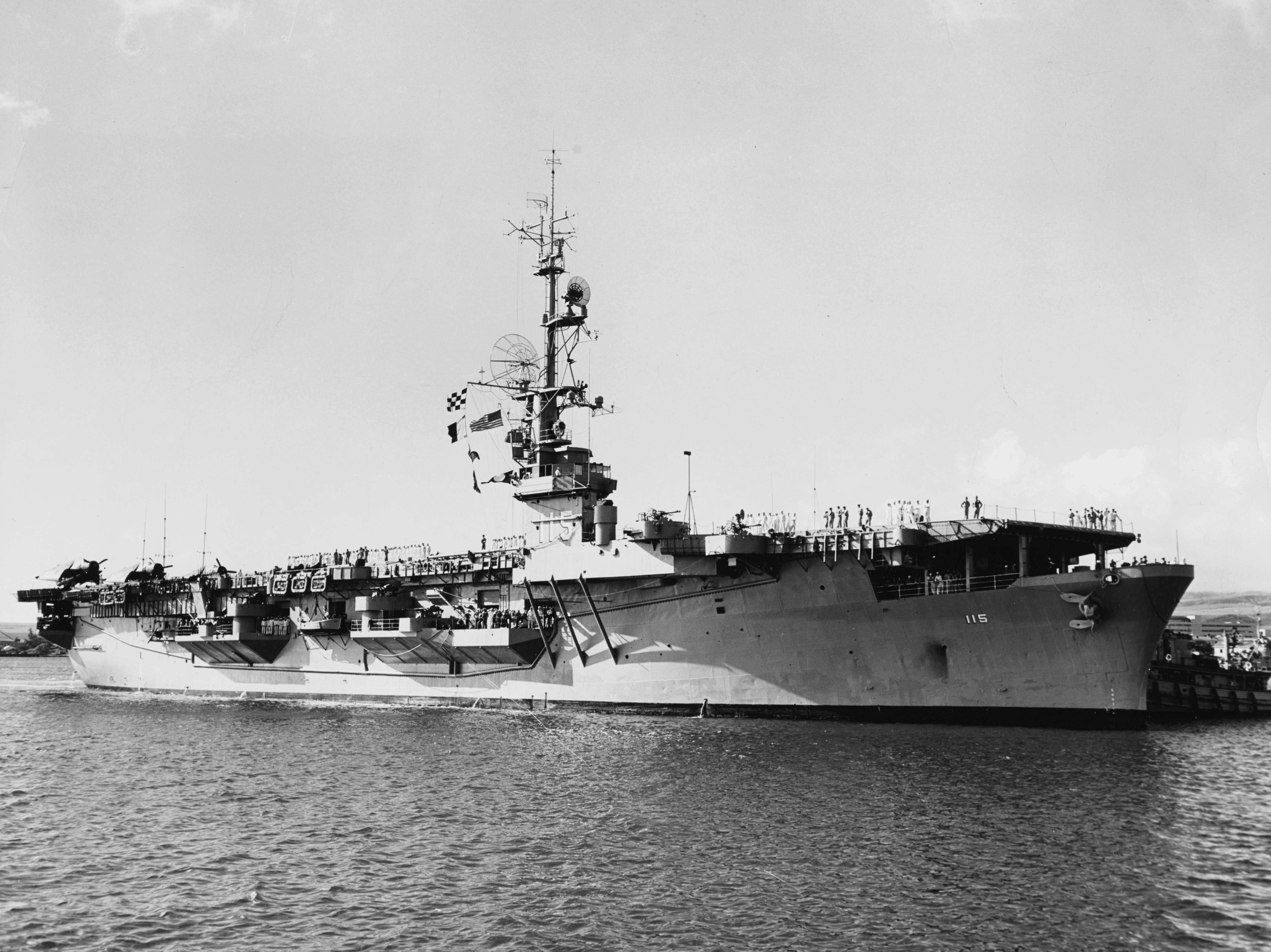 The U.S. Navy escort carrier USS Bairoko (CVE-115), as she arrived at Pearl Harbor, Thursday evening, 28 July 1949, from San Diego, California (USA), with 30 officers and 150 enlisted personnel from Composite Squadron 25 (VC-25), which received six weeks' training with Fleet All Weather Training Unit at Naval Air Station Barber's Point, Oahu, T.H. The Bairoko was commanded by Captain S. Gazze, USN, of Coronado, California (USA).